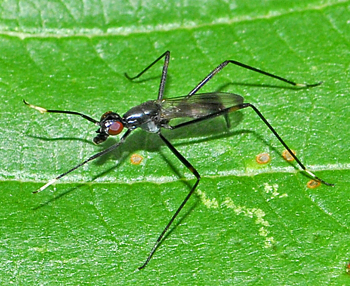 Rainieria calceata. Val di Rhemes, Aosta, Italy